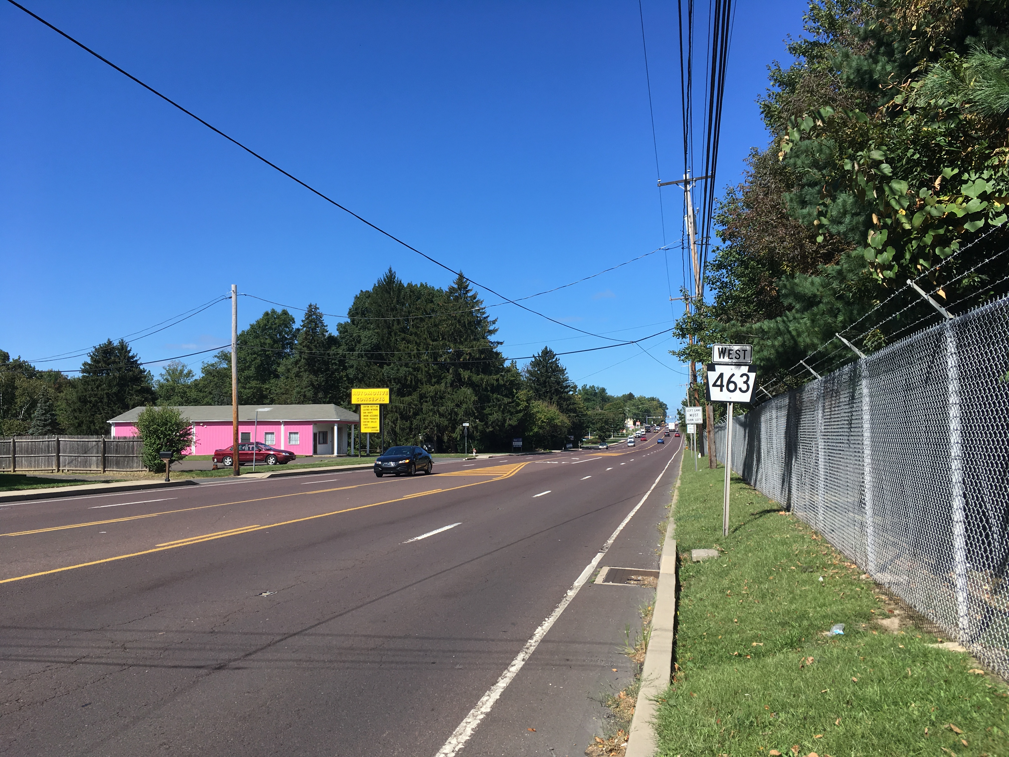 Westbound Pennsylvania Route 463 (Horsham Road) past the intersection with Maple Avenue in Horsham, Pennsylvania